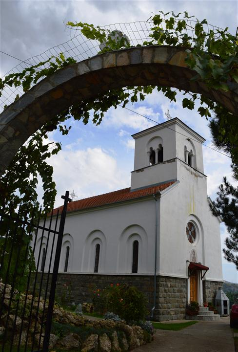 Raska Municipality - Rudnica